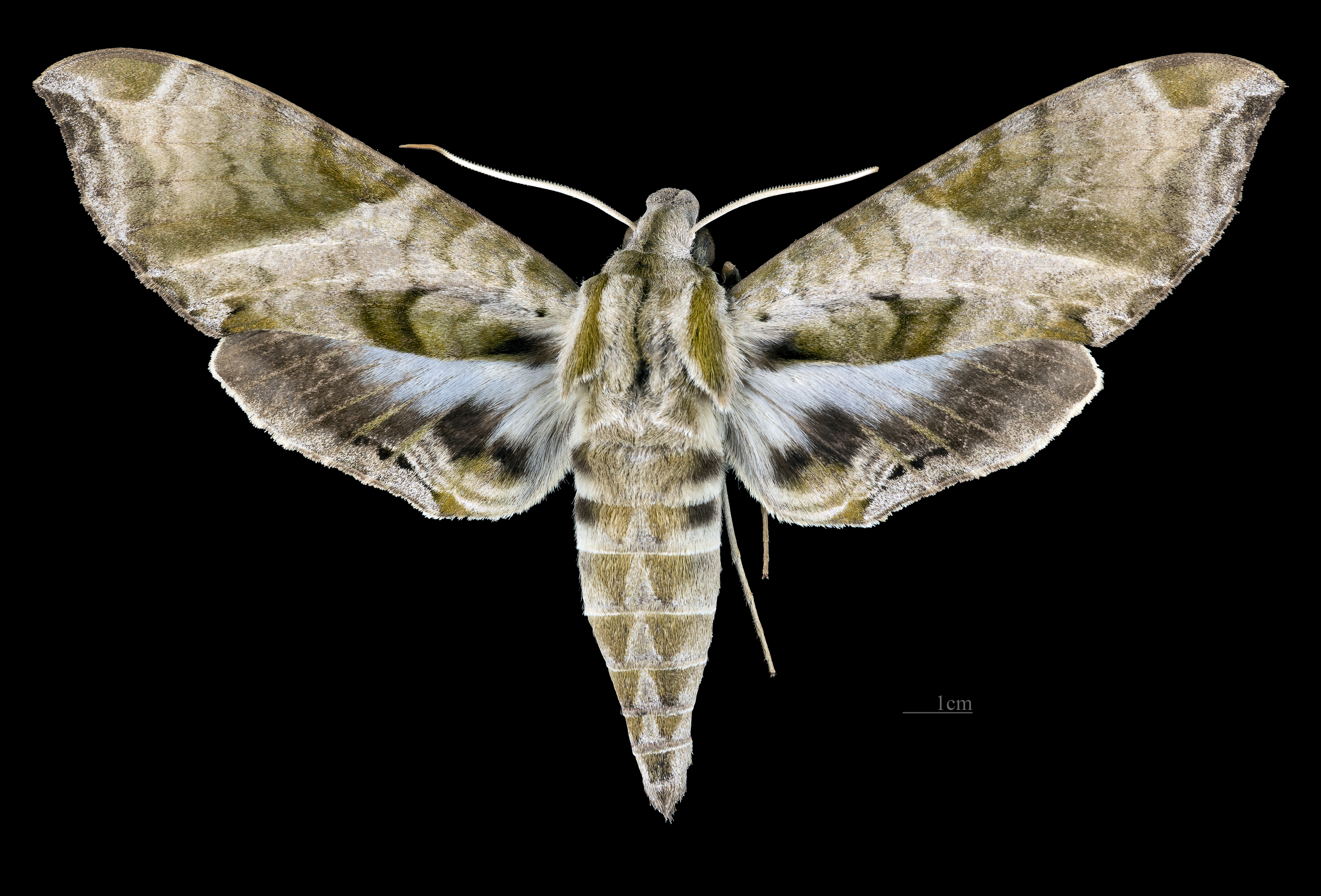 Eumorpha elisa - Dorsal side Collection of the Mathematician Laurent Schwartz